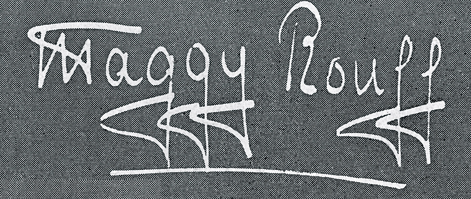 Autograph Maggy Rouff. Cut from: 1946 publicity for the textiles of Robert Perrier, featuring autographs of Maggy Rouff, Madeleine de Rauch, Jeanne Paquin, Lucien Lelong, Elsa Schiaparelli, Jeanne Lanvin, Jean Dessès, Marcelle Chaumont, Marie-Louise Bruyère, Edward Molyneux, Jacques Fath, Jeanne Lafaurie, Nina Ricci, Mad Carpentier, Madeleine Vionnet, Robert Piguet, Callot Soeurs, Agnès-Drécoll, etc.